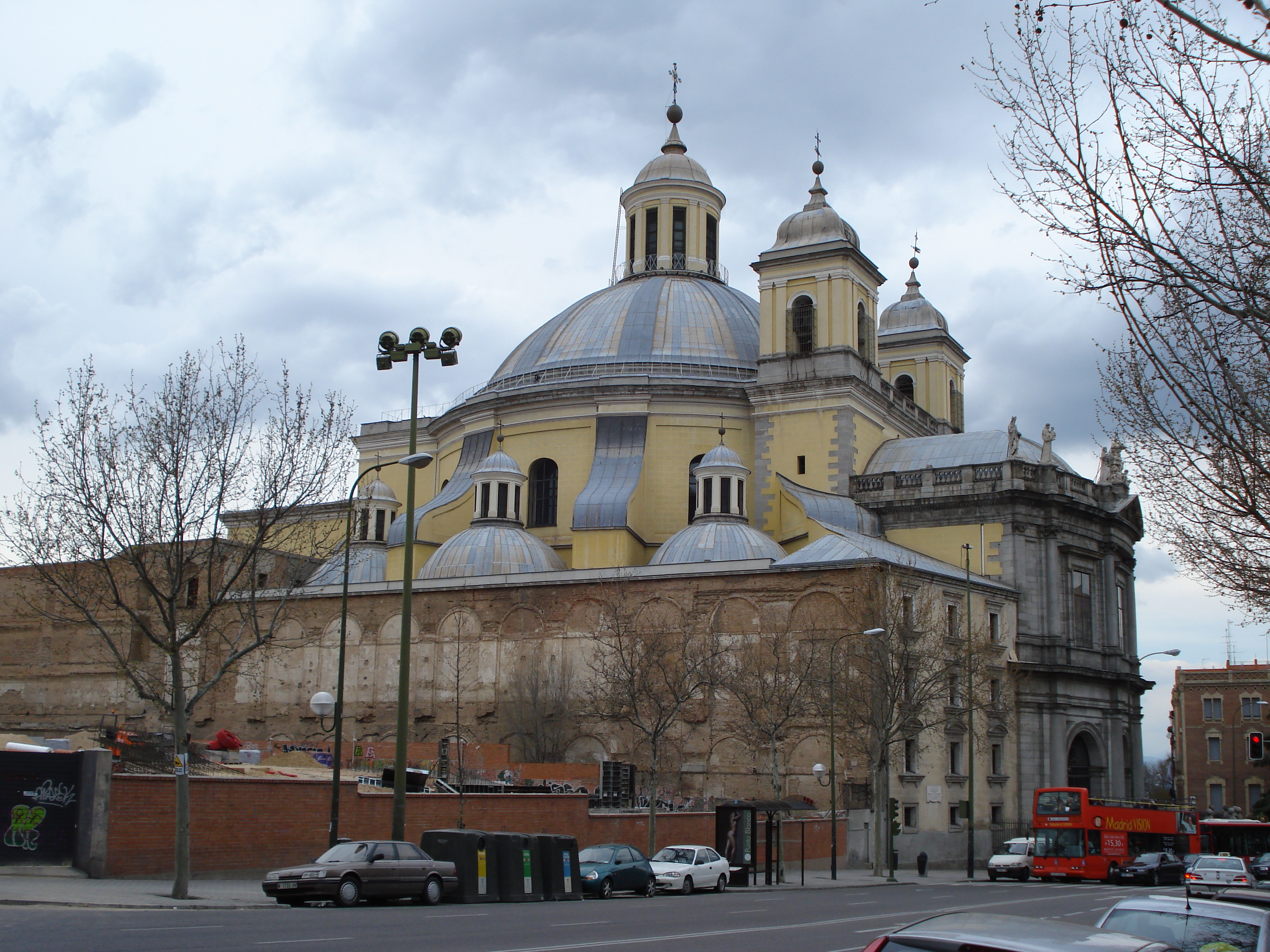 Basílica de San Francisco el Grande ("Basilica of St. Francis of Assisi") (Madrid, Spain, 1761–1784). Architect: Francisco Cabezas (1709–1773).